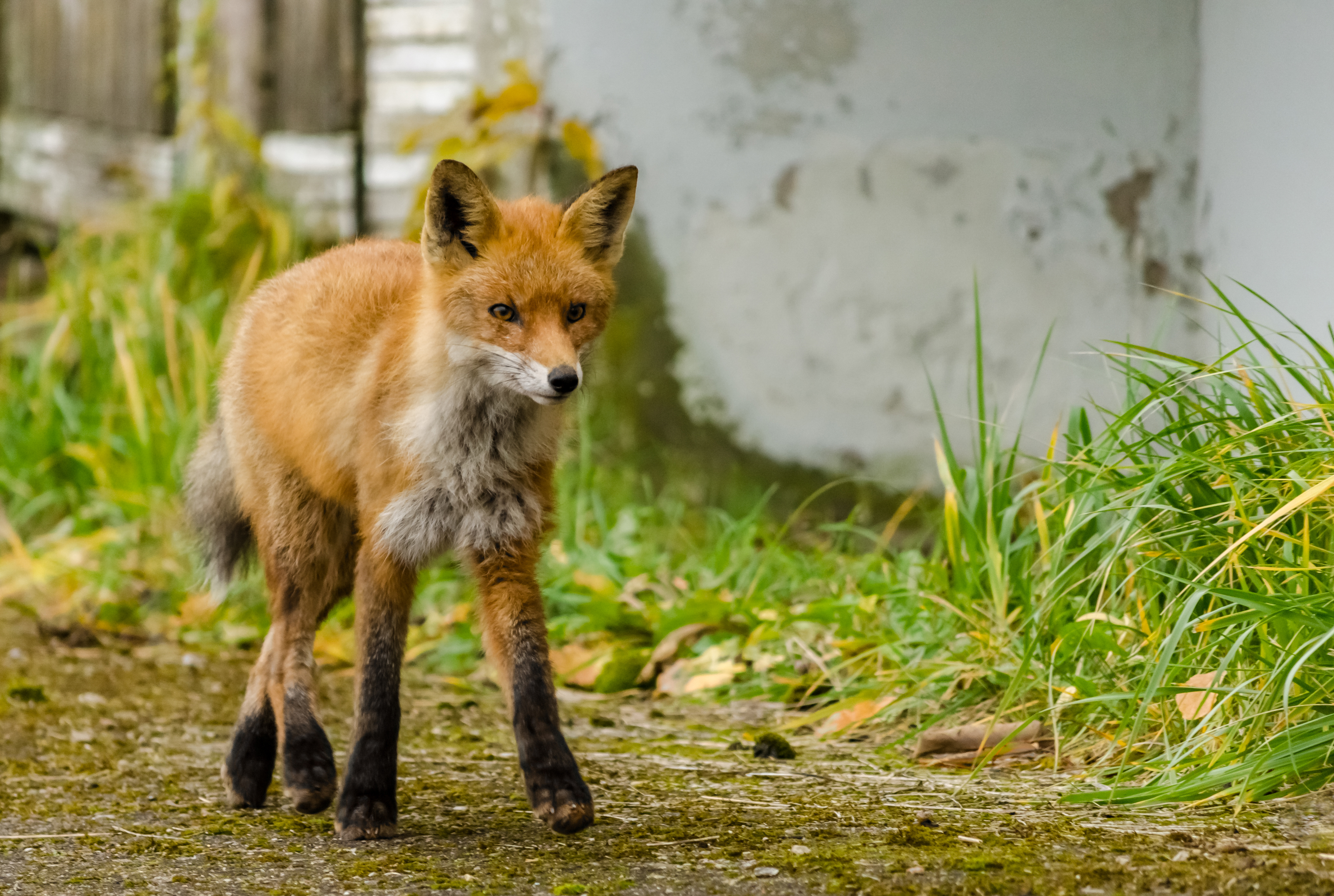 Red fox (Vulpes vulpes). Varbla village, Estonia.